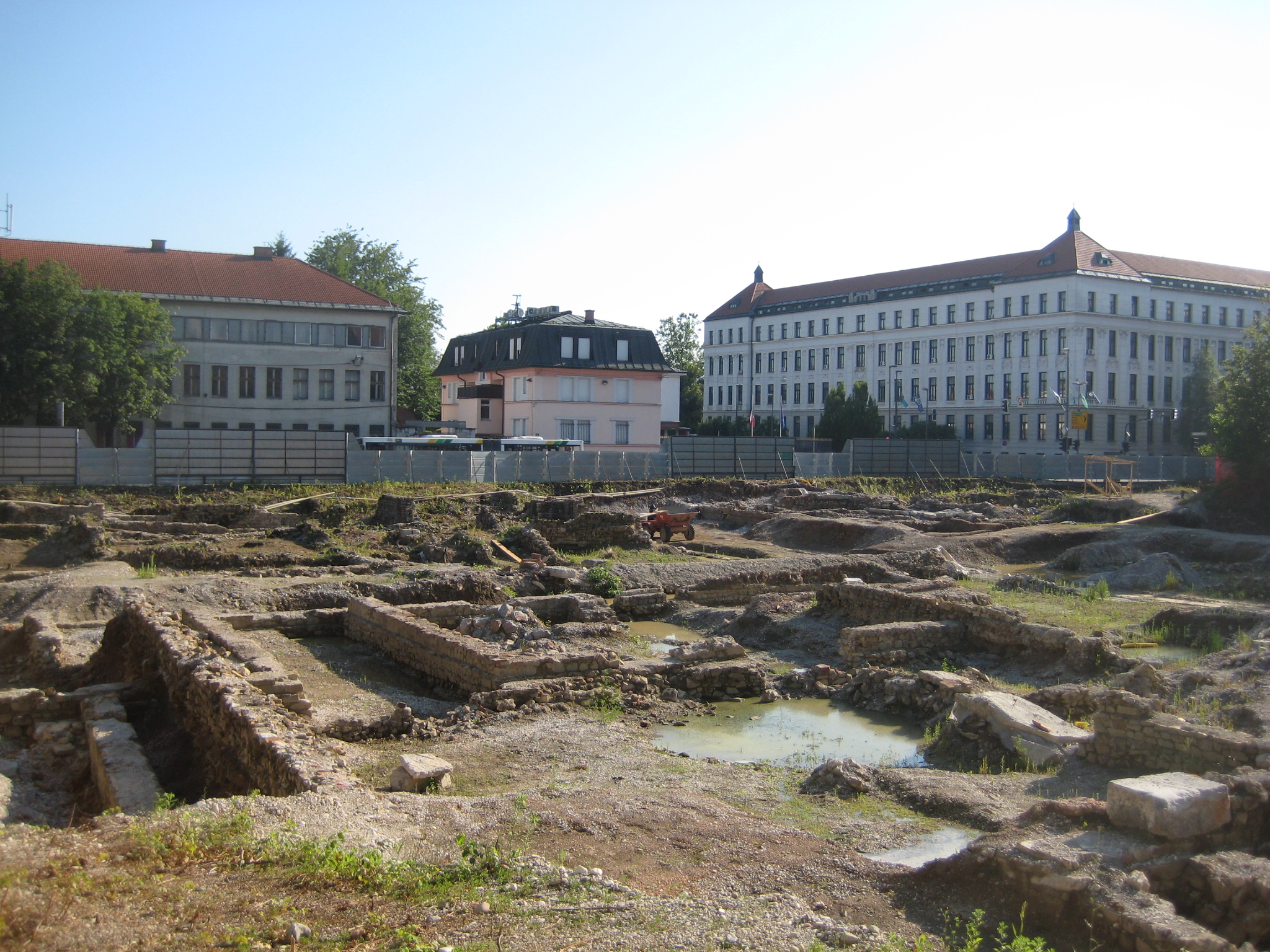 Part of the Ancient Roman town of Emona at the crossroad of Slovene Street and Zois Street.